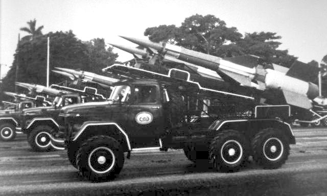 SA-3 "Goa" SAM system on parade in Havana, Cuba. "Soviet Military Power," 1983, Page 89